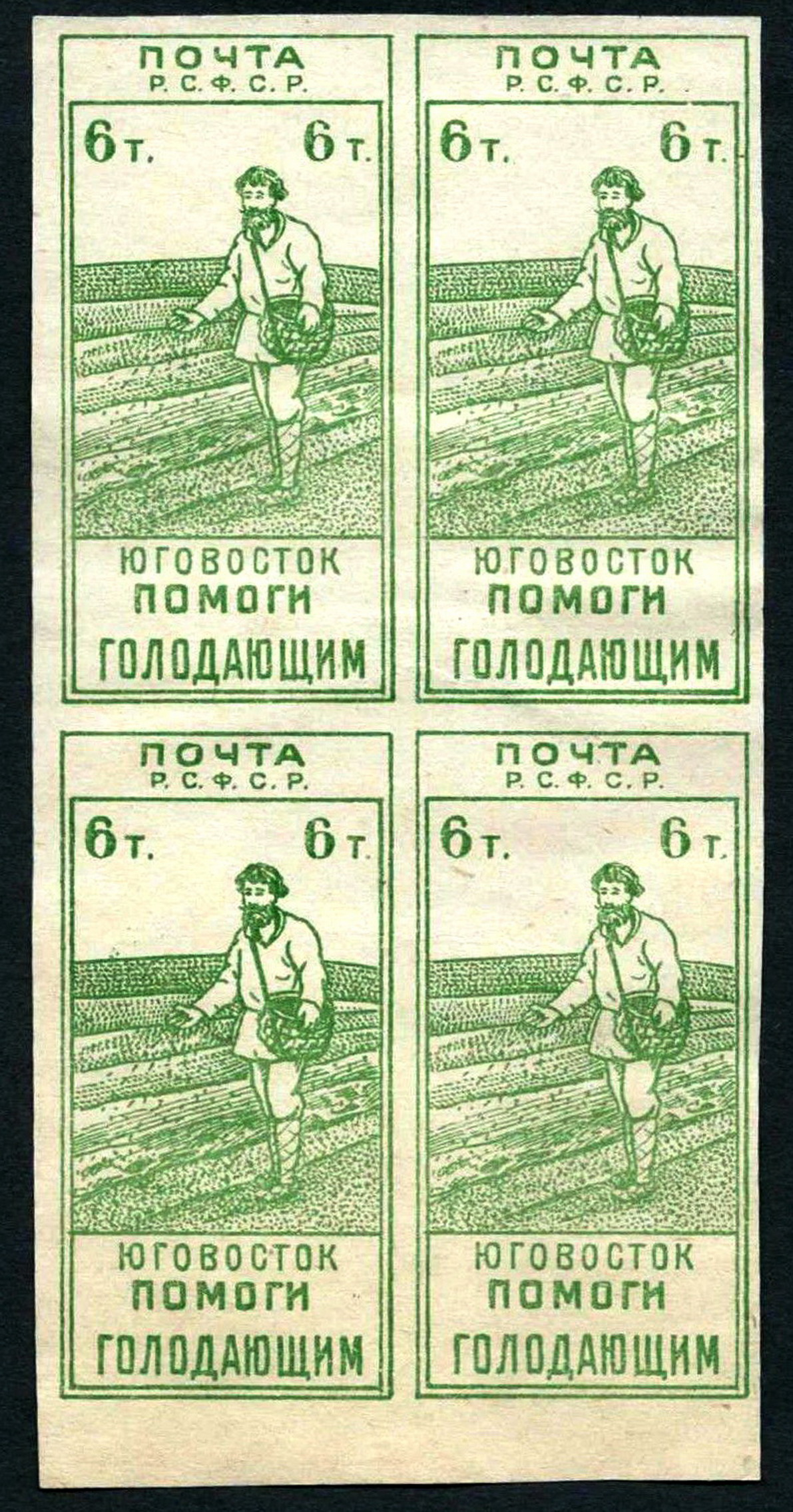 Obligatory Tax. Rostov-on-Don issue. Famine Relief. Sower. Block of 4 stamps